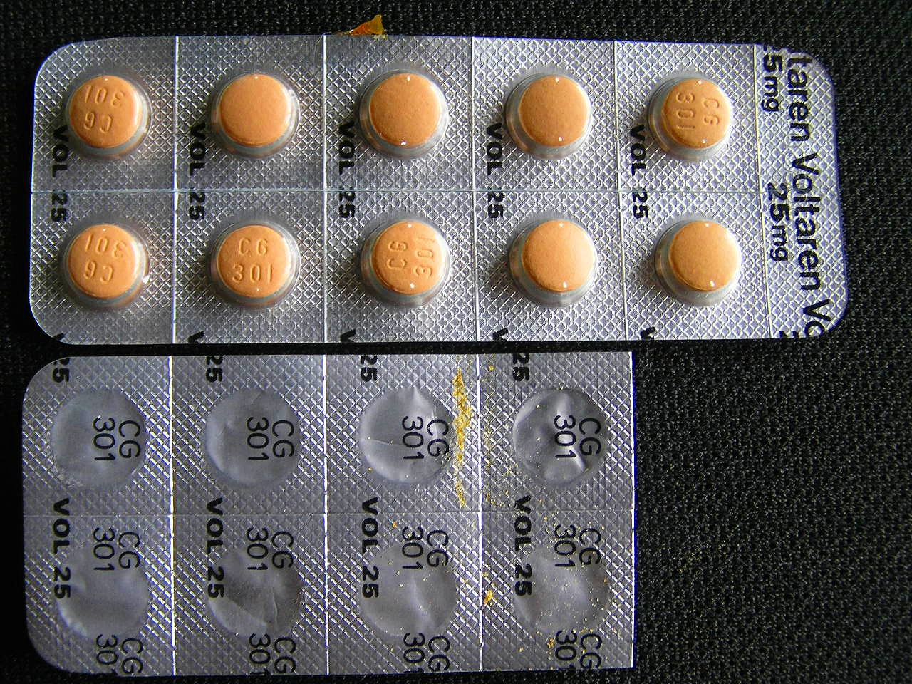 Voltaren 25mg